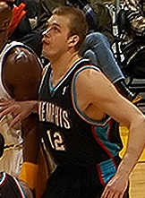 Jake Tsakalidis in 2003 with the Memphis Grizzlies, waiting up for the opening toss vs Los Angeles lakers